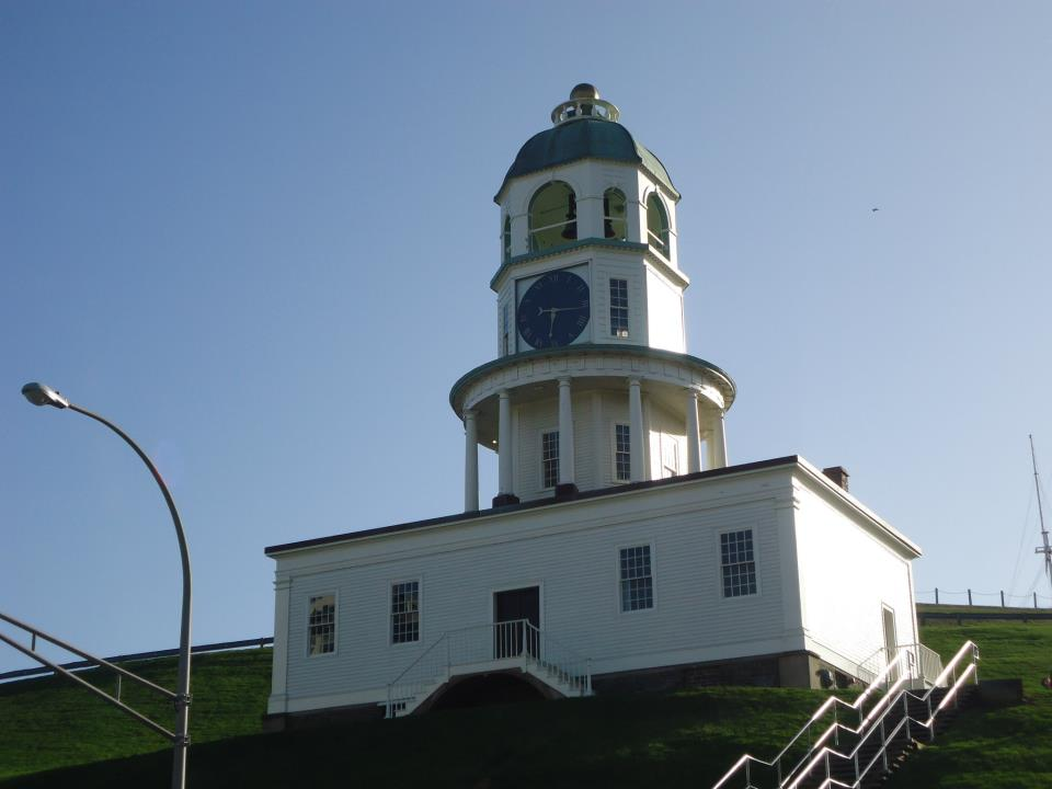 This is the town clock on an angle from the Mooseheads Rally.